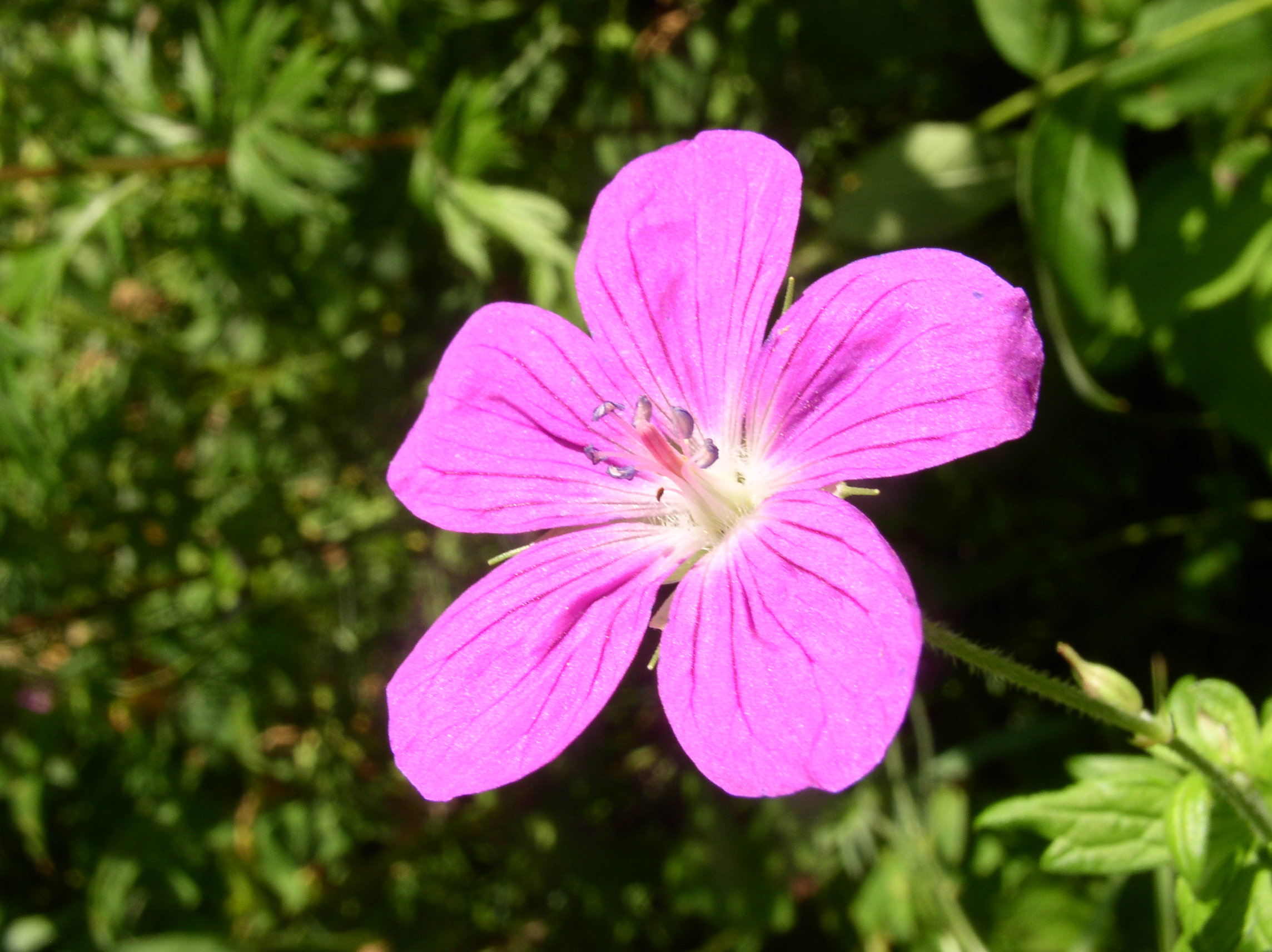 Geranium palustre flower in Savonlinna, Finland.